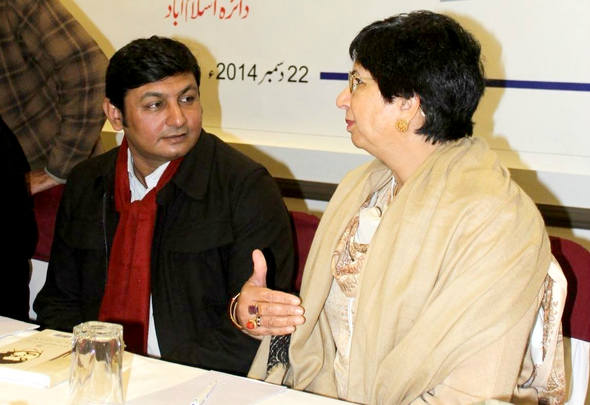 Zal Saadi and Dr Samina Ysmin in a conversation about Rindnama Zal Saadi ( رندنامہ ذال سعدی ).